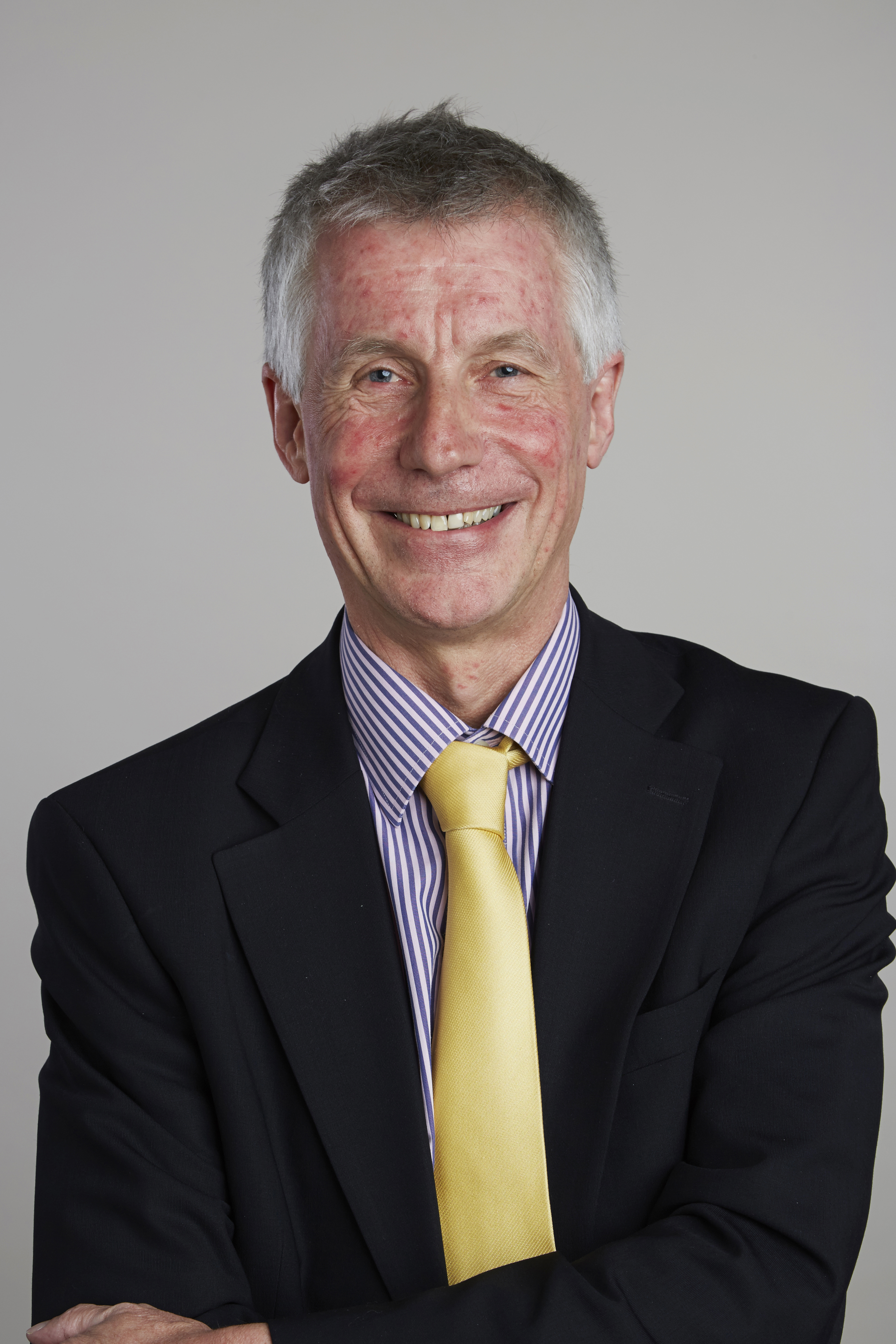 Steve Brown is Director of the Medical Research Council’s Mammalian Genetics Unit. He obtained his PhD at the University of Cambridge, and before he joined the MRC, he was Professor of Genetics at Imperial College London. His research interests cover mouse functional genomics, including the use of mouse mutagenesis and phenotyping approaches to study the genetic basis of disease. A particular focus has been the use of mouse models to elucidate the molecular basis of genetic deafness. With Karen Steel, he discovered myosin VIIA as the gene underlying the shaker-1 mutant — one of the first deafness genes to be identified. More recently, he has studied the genetics of otitis media, a common cause of hearing loss in children, employing mouse models to elaborate the genetic pathways involved and develop novel therapeutic strategies. He is a Fellow of the Academy of Medical Sciences, a Member of EMBO, and in 2009 was the recipient of the Genetics Society Medal. He has served on numerous advisory boards and is Chair of the International Mouse Phenotyping Consortium Steering Committee. Attribution: The Royal Society